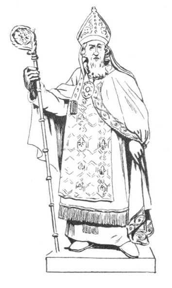 A drawing of Samuel Harsnett, Archbishop of York. Seems to be a drawing of statue on Colchester Town Hall (constructed shortly before publication), authority unknown, probably 1630s engraving of Harsnett at tomb in Chigwell, Essex, England.